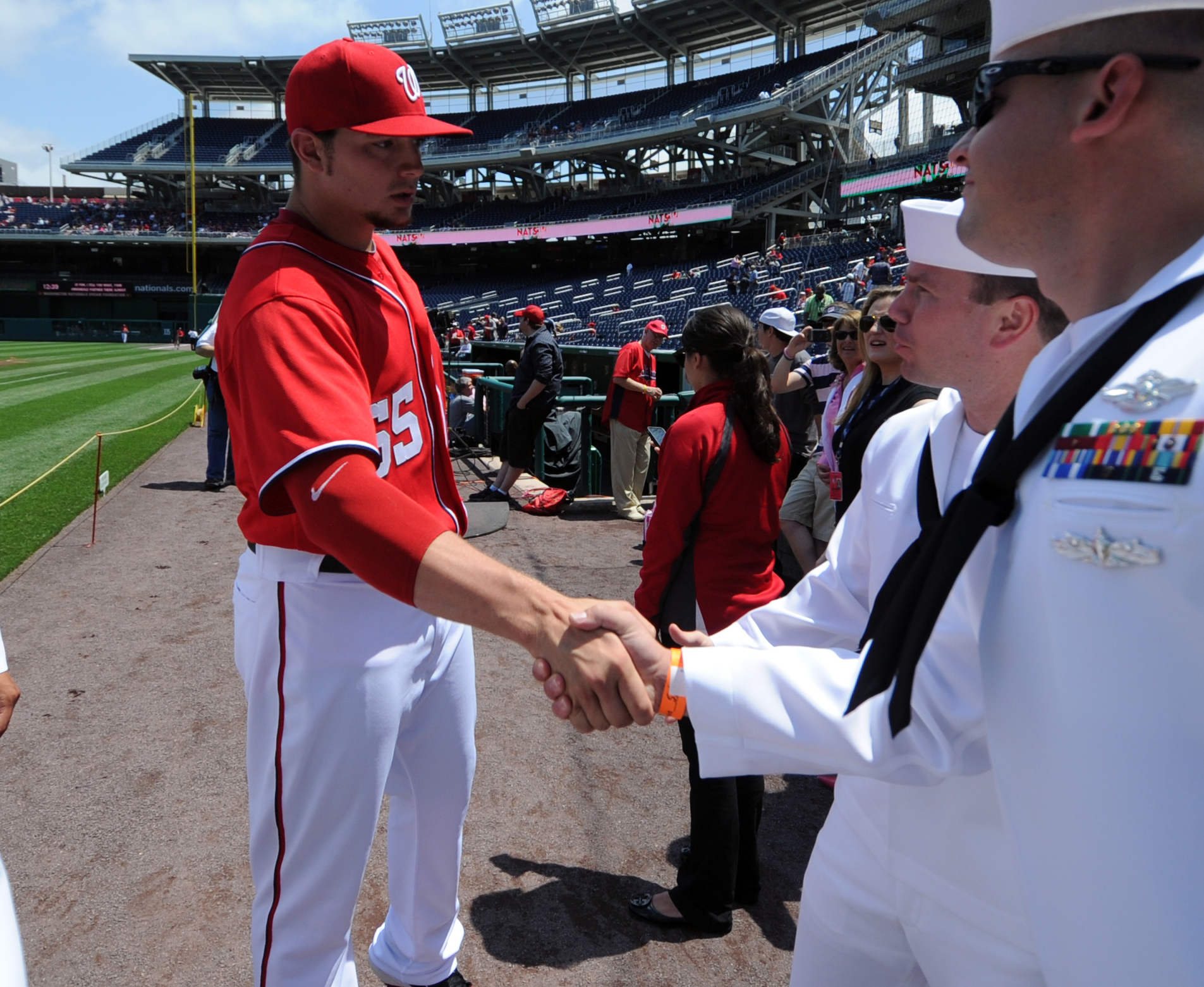 WASHINGTON (May 15, 2011) Washington Nationals pitcher Cole Kimball takes a moment to congratulate the 2010 Sailors of the Year before being honored prior to a baseball game between the Nationals and the Florida Marlins at the Nationals Park. The four Sailors will be meritoriously promoted to chief petty officers for their accomplishments. (U.S. Navy photo by Mass Communication Specialist 1st Class Abraham Essenmacher/Released)